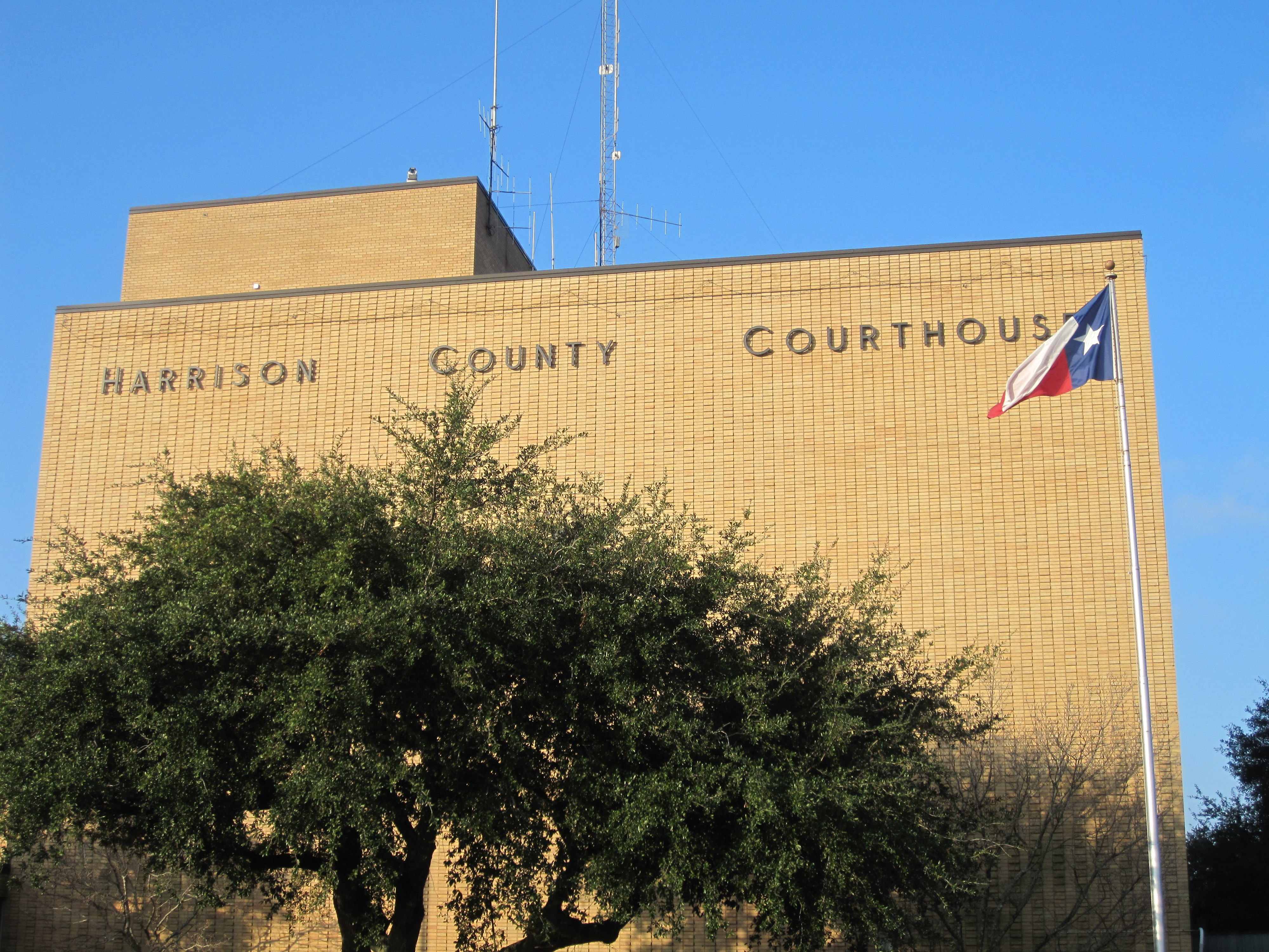 Harrison County, TX, Courthouse